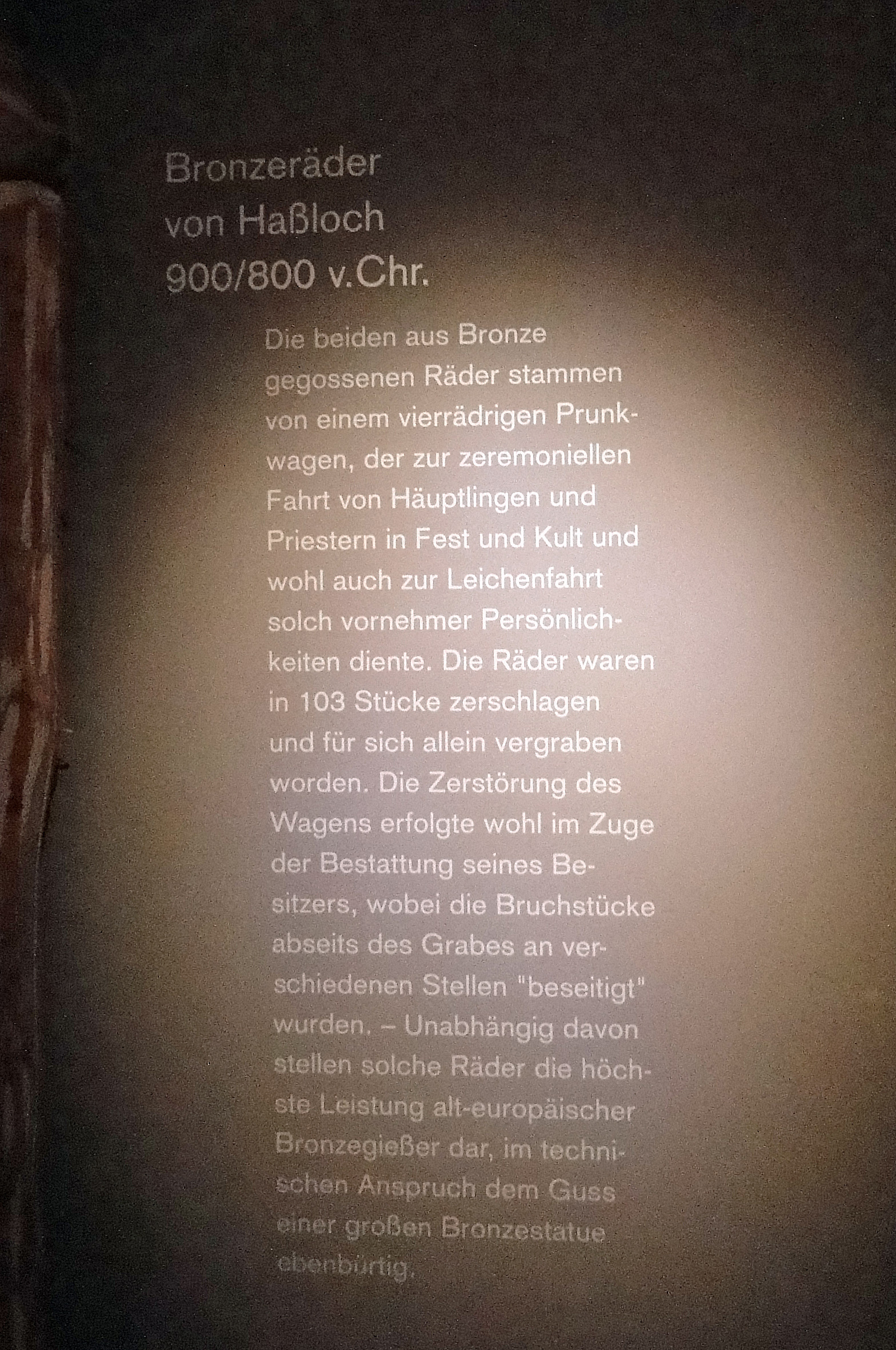 Historical Museum of the Palatinate, comment (German) of "Bronze wheels of Hassloch", BC 900-800, permanent exhibition display case, Speyer, Rhineland-Palatinate, Germany